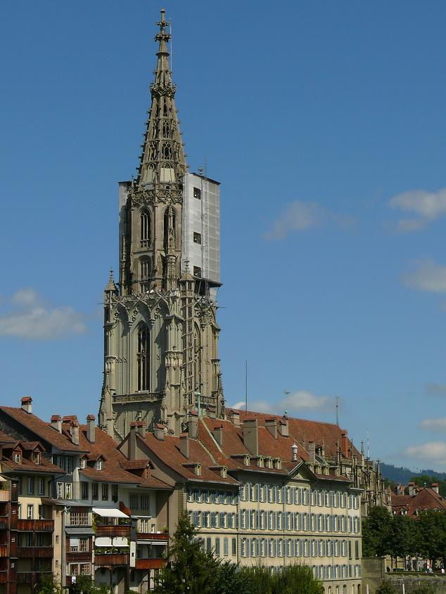 Munster of Berne